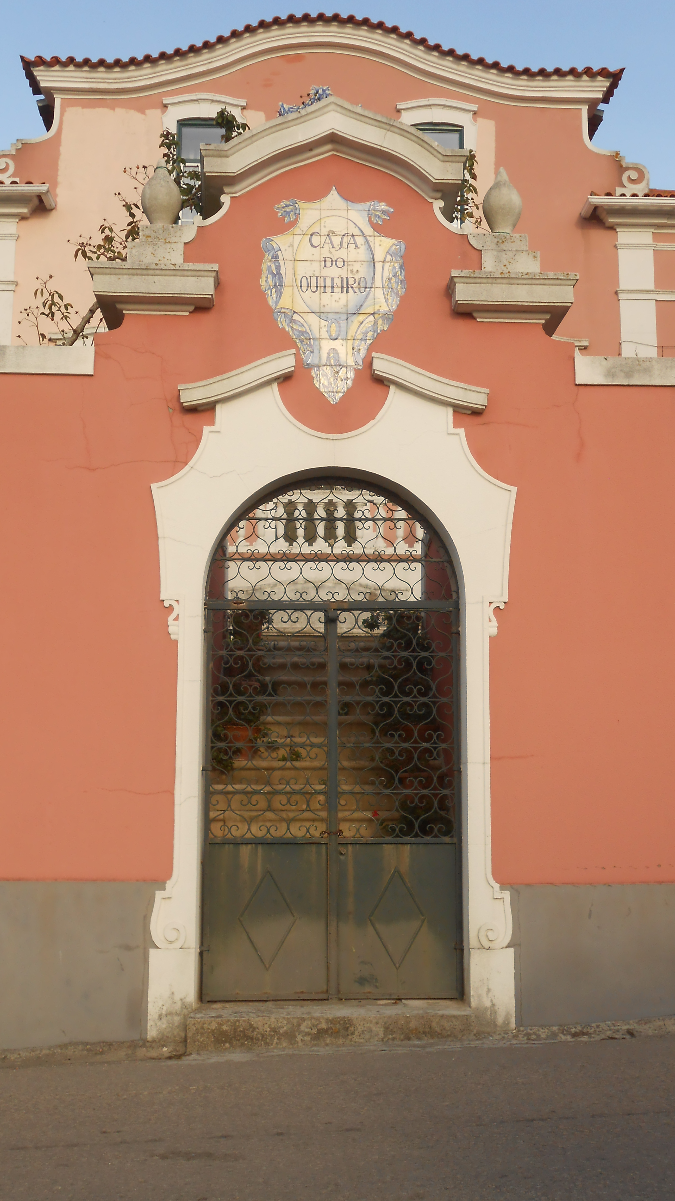 The Casa do Outeiro manor house in cercal, a village in the civil parish of Gesteira, municipality of Soure, district of Coimbra, Portugal.